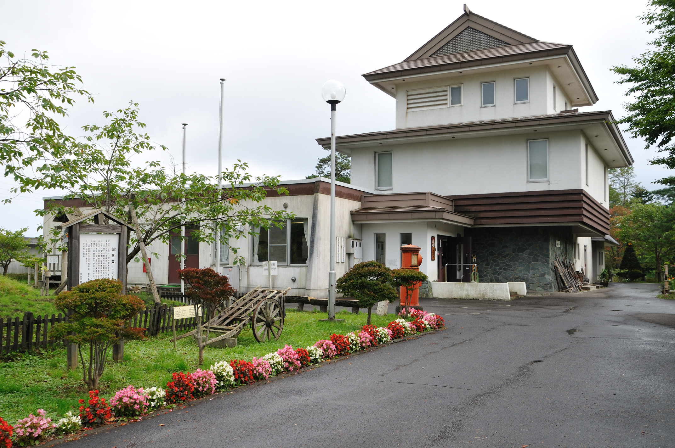 Noboribetsu Local History Museum, Noboribetsu, Hokkaido, Japan